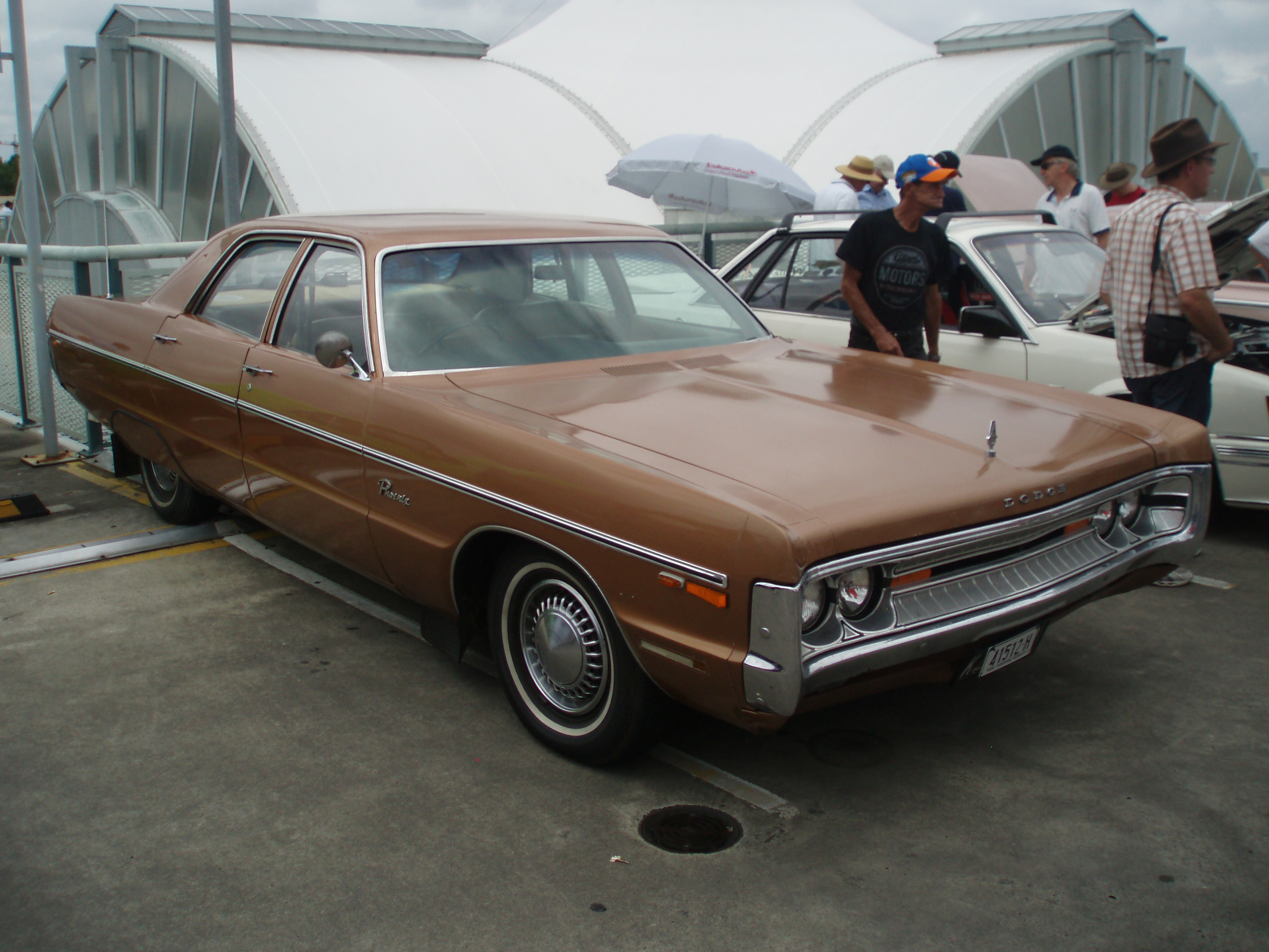 1971 Dodge DG Phoenix 400 sedan. I think this one was #18. One of 400 sedans and 400 hardtops assembled by Chrysler Australia. Taken at the 2011 New South Wales All American Day, held at Castle Towers Shopping Centre, Castle Hill, Sydney.